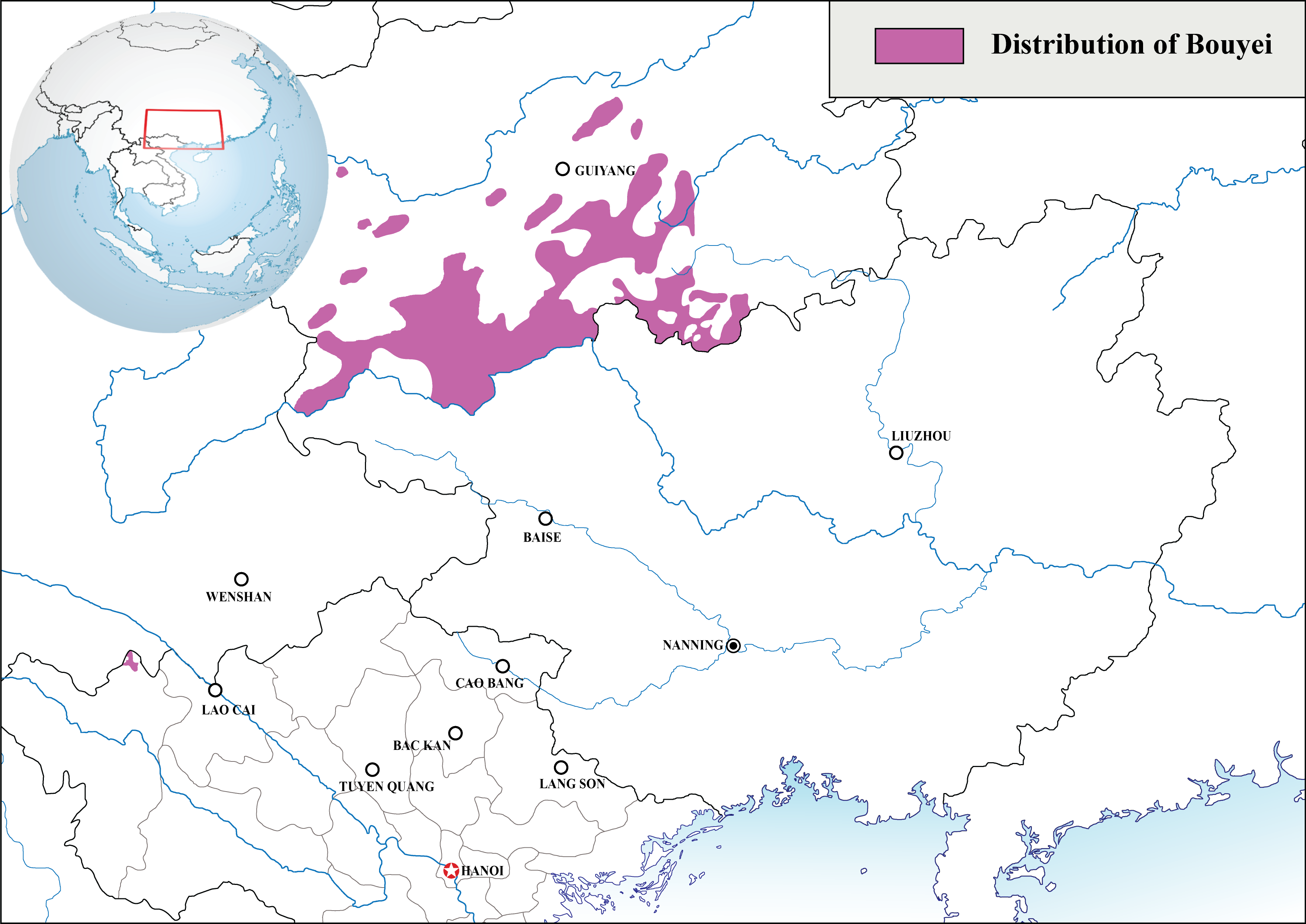 Geographic distribution of Bouyei people Sources: Giay, Nhang of China (Joshuaproject) [1]. Bouyei in China (Joshuaproject) [2]. Its vector version can be found here: Bouyei.svg.